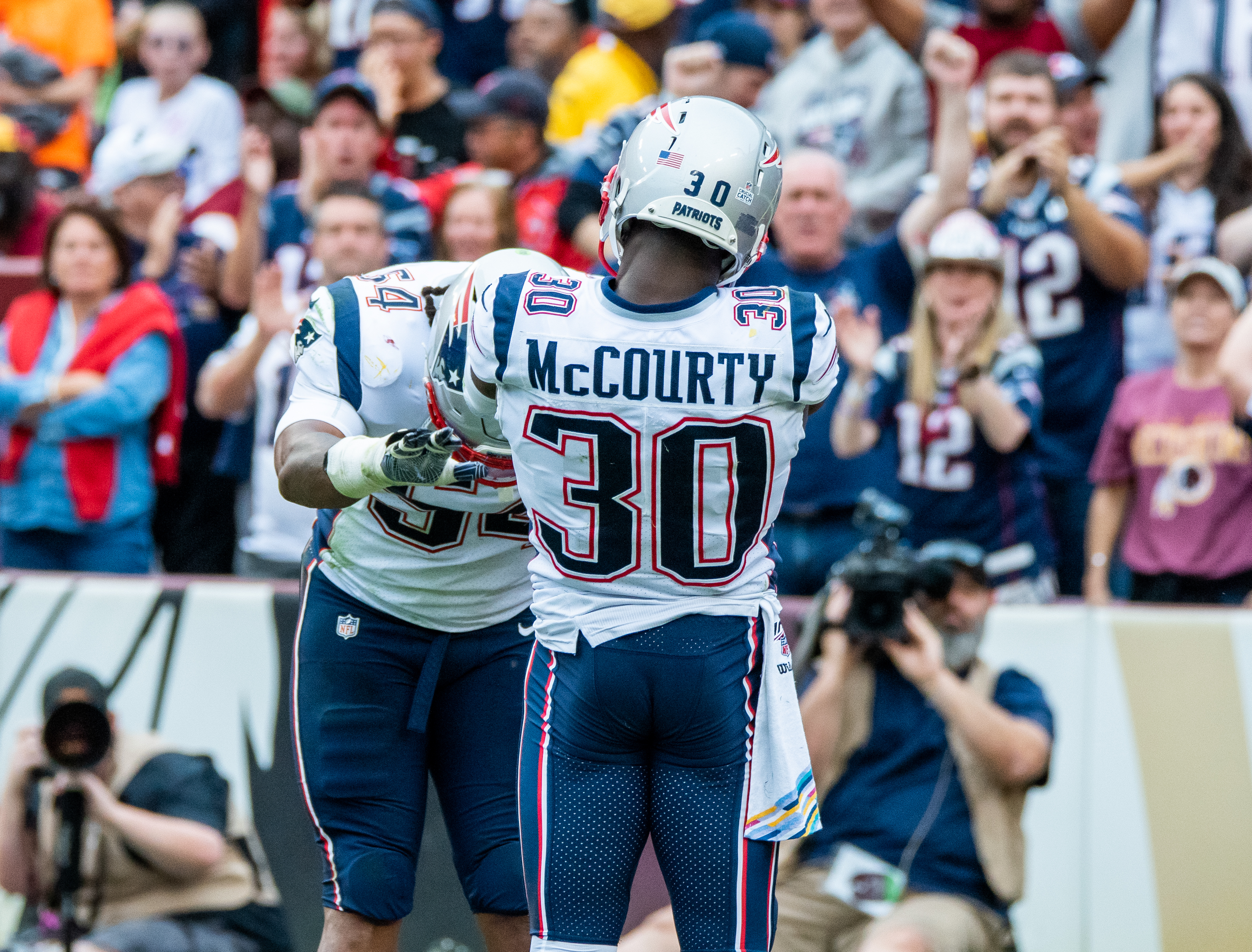 In 2019